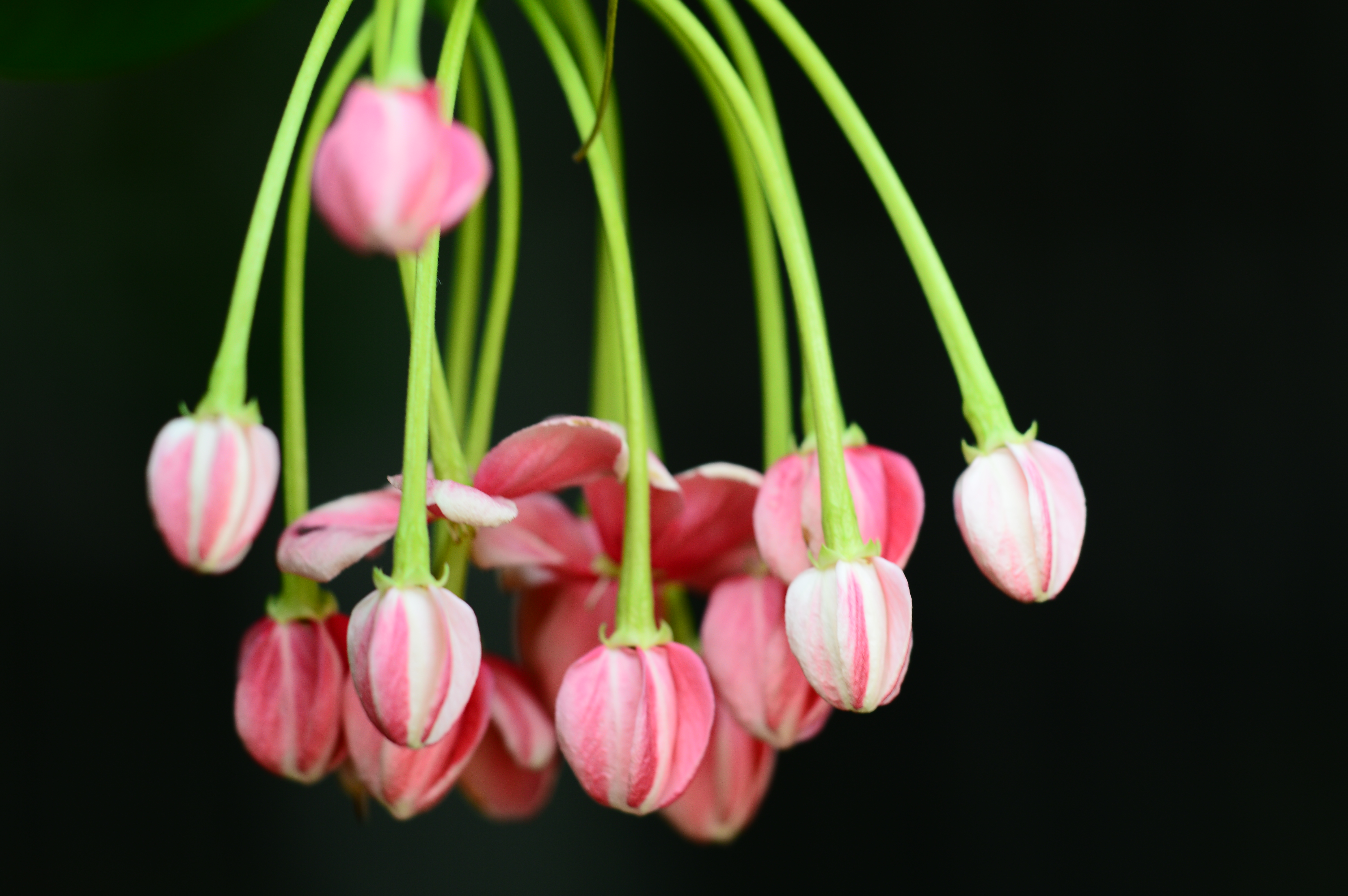 Quisqualis indica